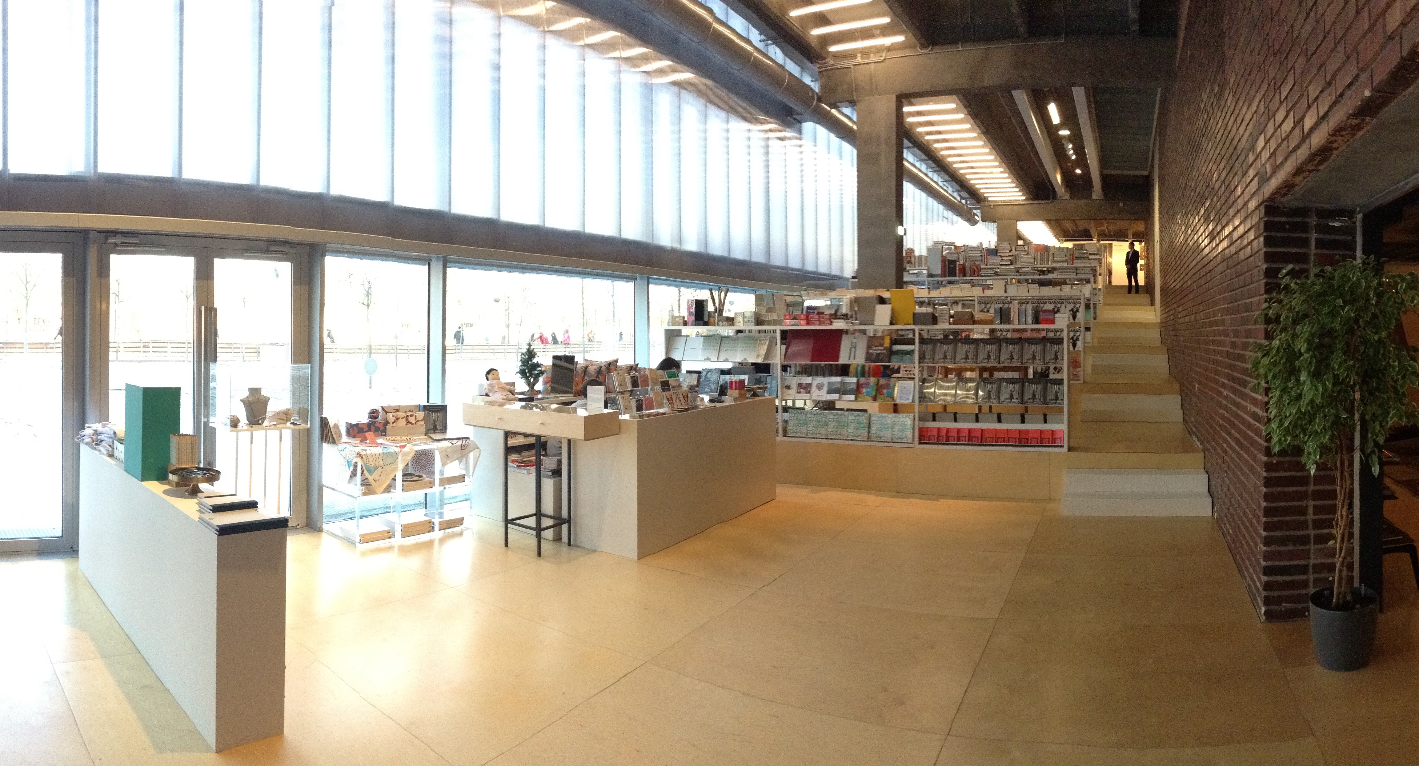 Book Shop of Museum of Contemporary Art "Garage".